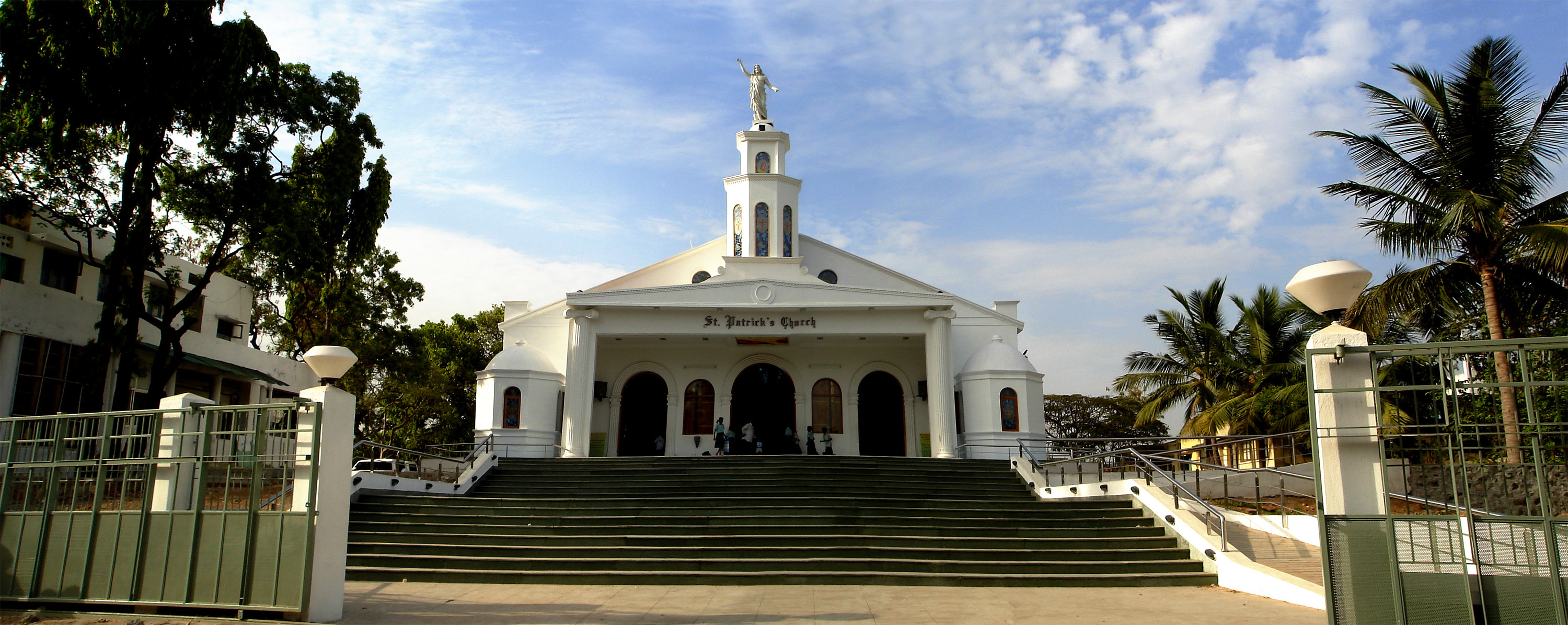 Facade of the Saint Patrick's Cathedral, Chennai